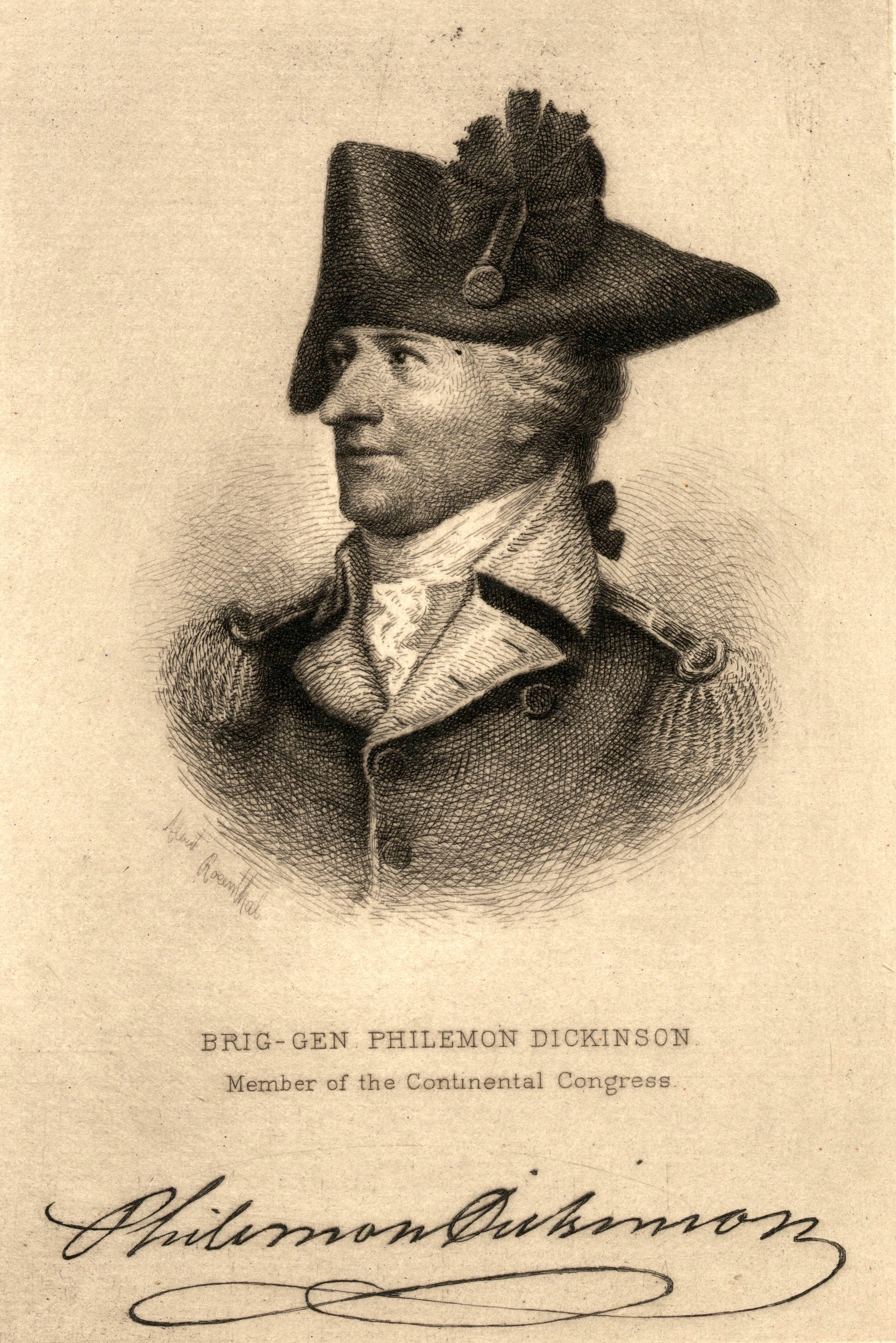 Draughtsman is David McNeely Stauffer. Printmakers include H.B. Hall, J.B. Forrest and Max Rosenthal. EM937